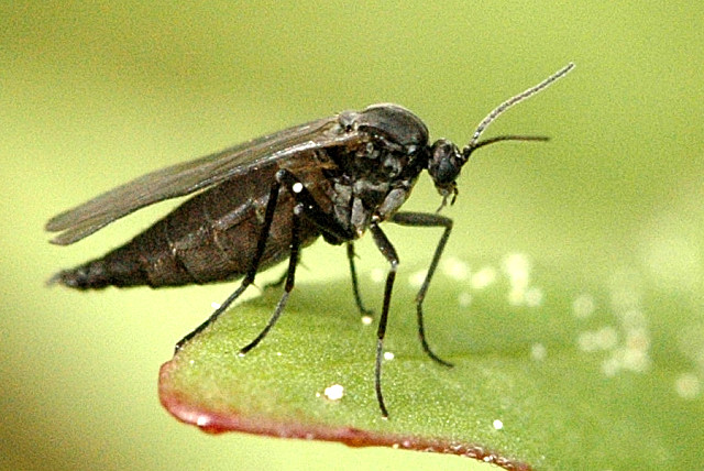 Bradysia praecox from Commanster, Belgian High Ardennes .